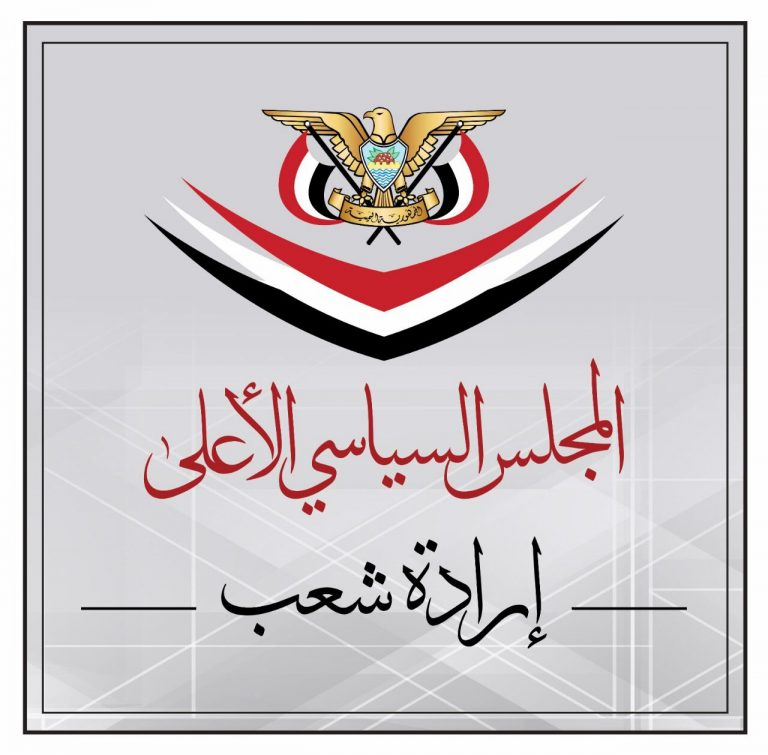 Official logo of Yemen's Supreme Political Council (SPC).